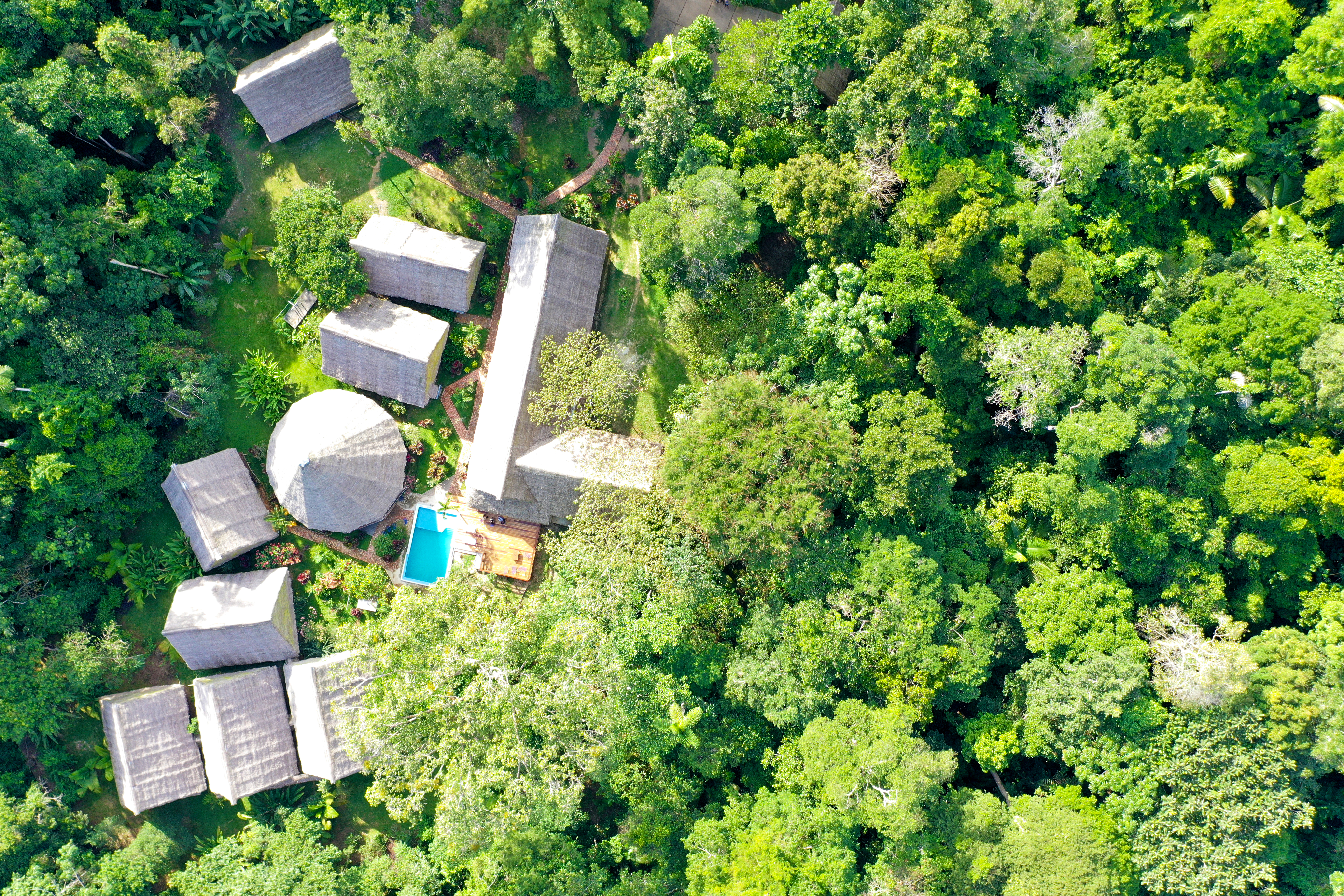 2019 Aerial View of Blue Morpho Ayahuasca Lodge and Retreat Center